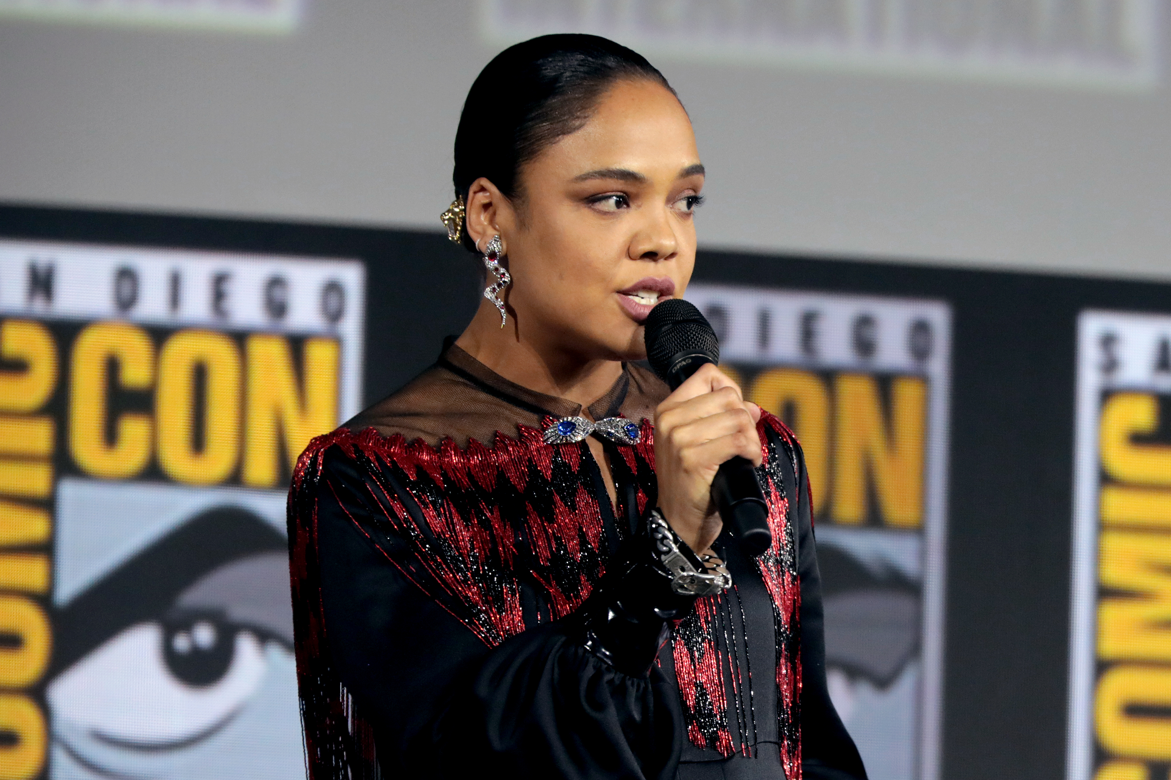 Tessa Thompson speaking at the 2019 San Diego Comic Con International, for "Thor: Love and Thunder", at the San Diego Convention Center in San Diego, California.